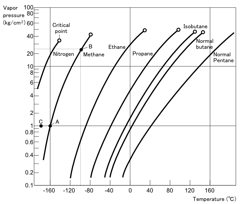 Liquefied Gas Vapor Pressure Curves